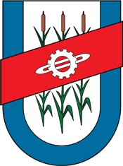 Kamyshin (Volgograd oblast), coat of arms (1968)